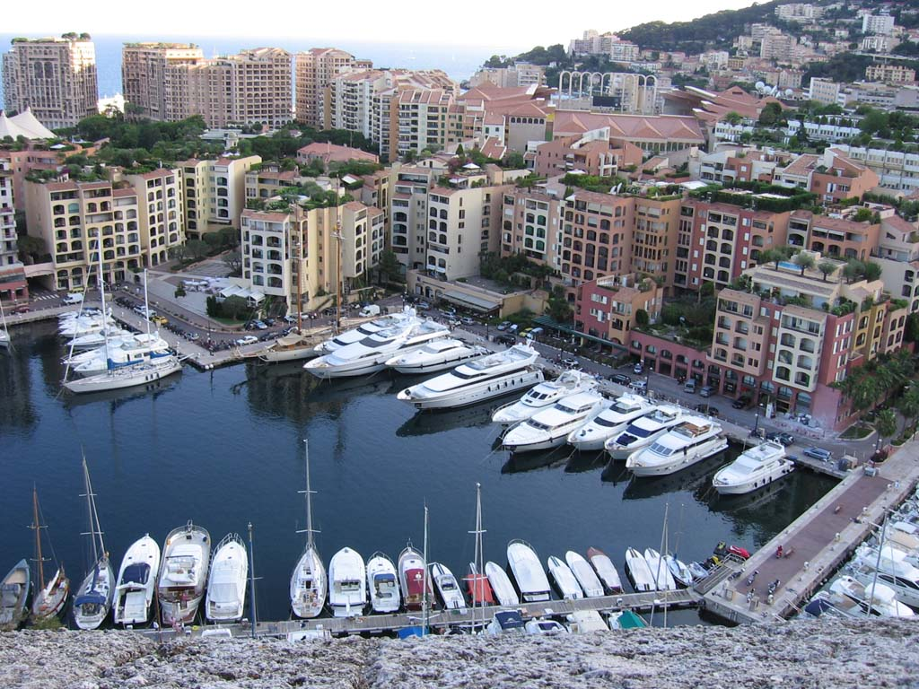 View on the Fontvieille harbour in Monaco